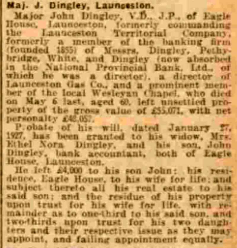 Will of John Dingley of Eagle House, Launceston, Cornwall.